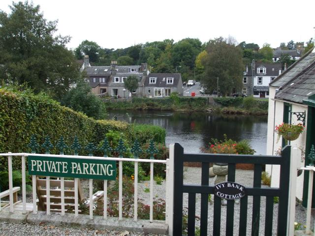 Looking across the Cree. Pictured at Newton Stewart in Scotland - note we have our own town of Newtownstewart in County Tyrone, which reminds me, I will have to get some more images of the town 52356